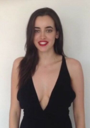 Australian model and actress Sarah Stephens at a portrait shoot.